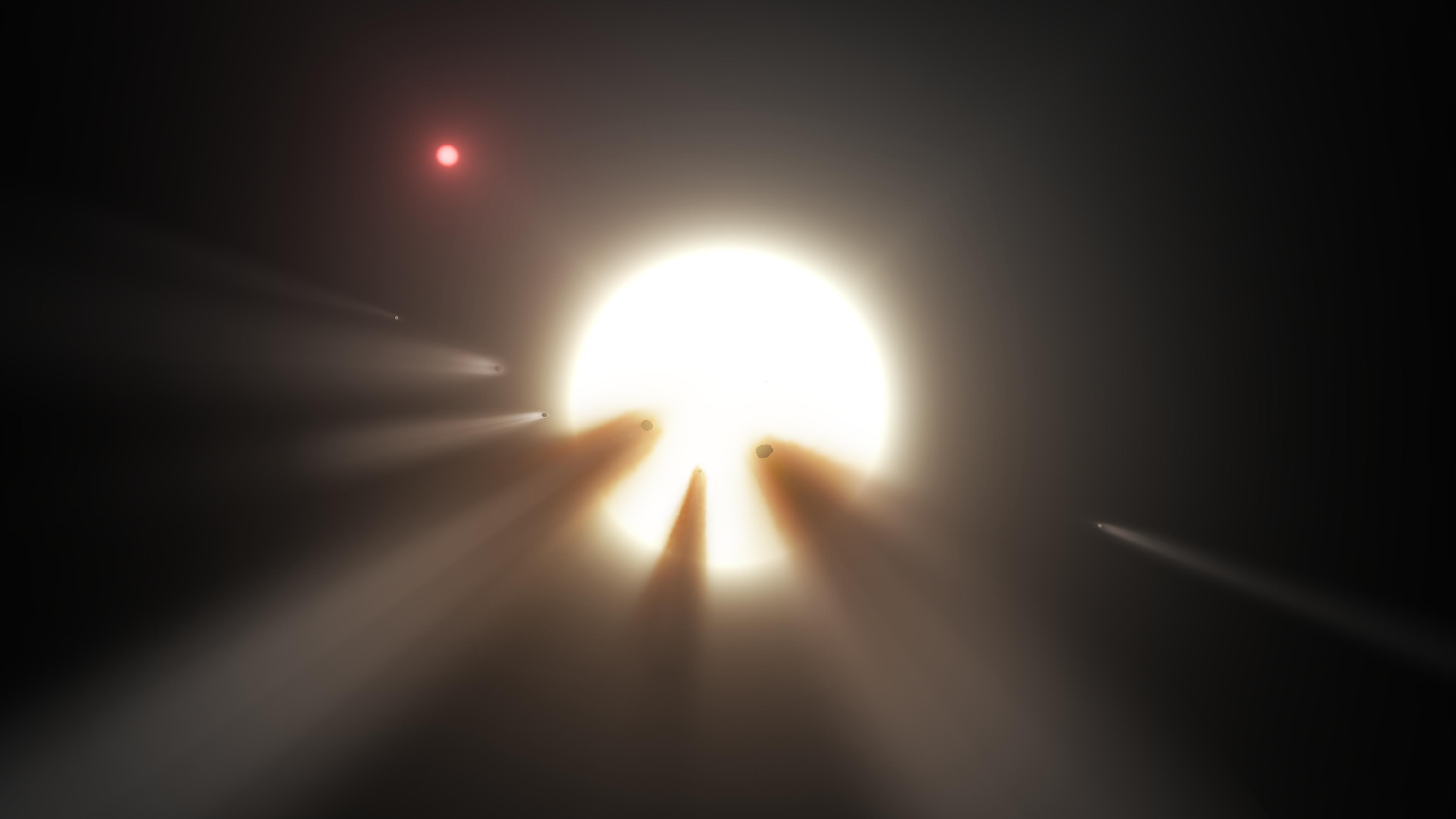 PIA20053: Swarm of Comets (Artist's Concept) Using data from NASA's Kepler and Spitzer Space Telescopes, this artist's concept does really show a star behind a shattered comet. Observations of the star KIC 8462852 by NASA's Kepler and Spitzer space telescopes suggest that its unusual light signals are likely from dusty comet fragments, which blocked the light of the star as they passed in front of it in 2011 and 2013. The comets are thought to be traveling around the star in a very long, eccentric orbit. NASA's Jet Propulsion Laboratory, Pasadena, Calif., manages the Spitzer Space Telescope mission for NASA's Science Mission Directorate, Washington. Science operations are conducted at the Spitzer Science Center at the California Institute of Technology in Pasadena. Spacecraft operations are based at Lockheed Martin Space Systems Company, Littleton, Colorado. Data are archived at the Infrared Science Archive housed at the Infrared Processing and Analysis Center at Caltech. Caltech manages JPL for NASA. For more information about the Kepler and Spitzer missions, visit: and and More information about exoplanets and NASA's planet-finding program is at